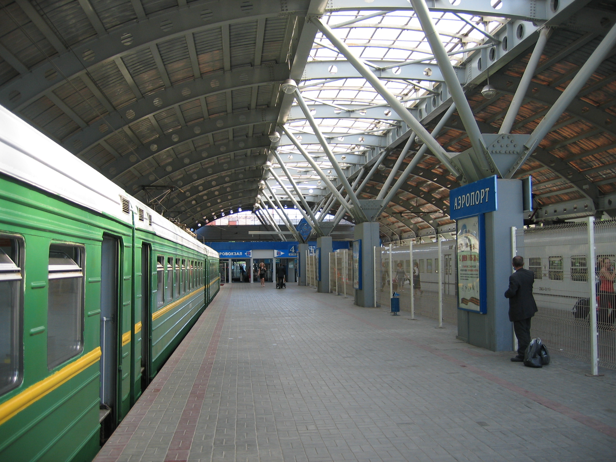 Train station Aeroport [Domodedovo], Moscow Oblast